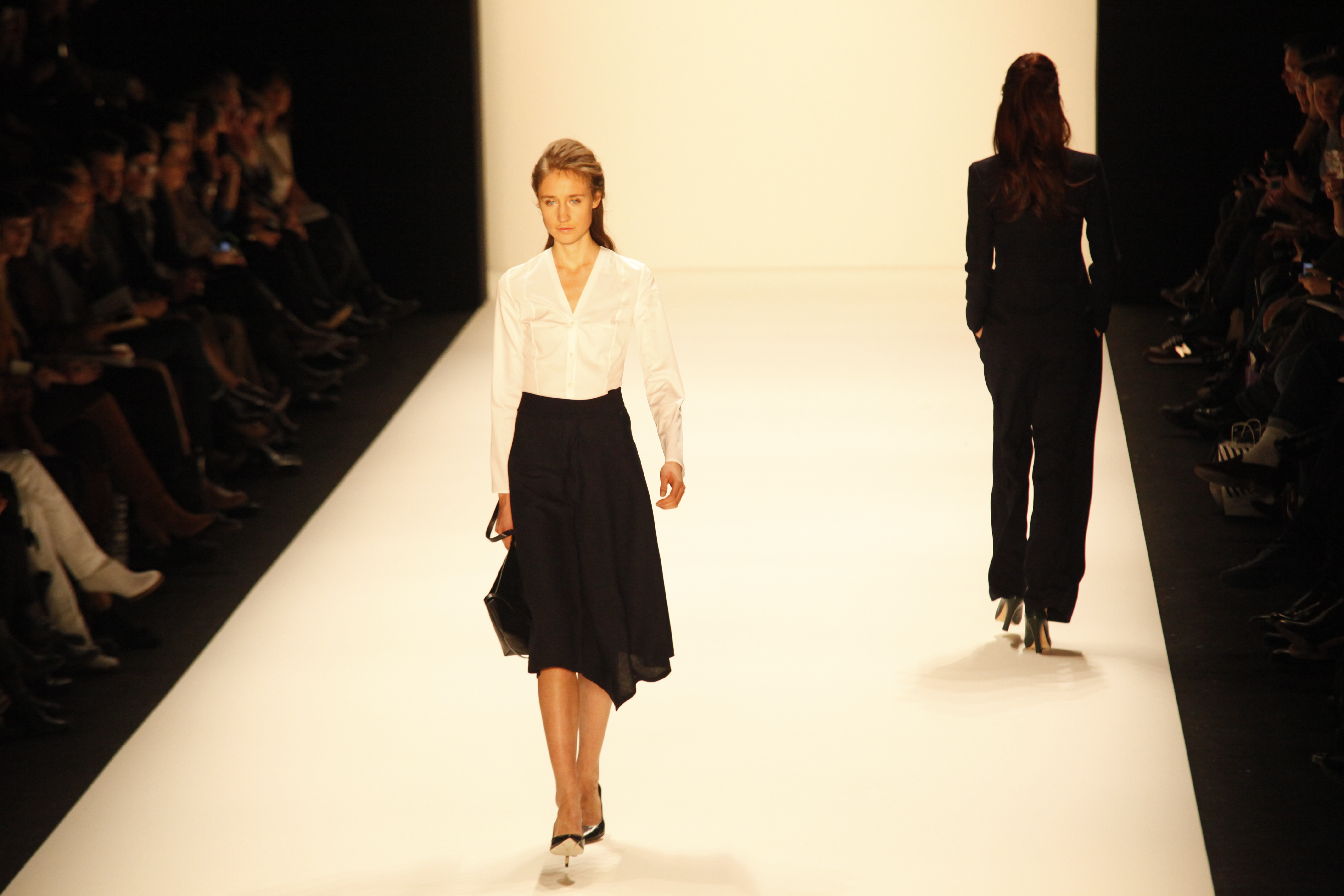 Mercedes Benz Fashion Week Berlin 2013 Perret Schaad